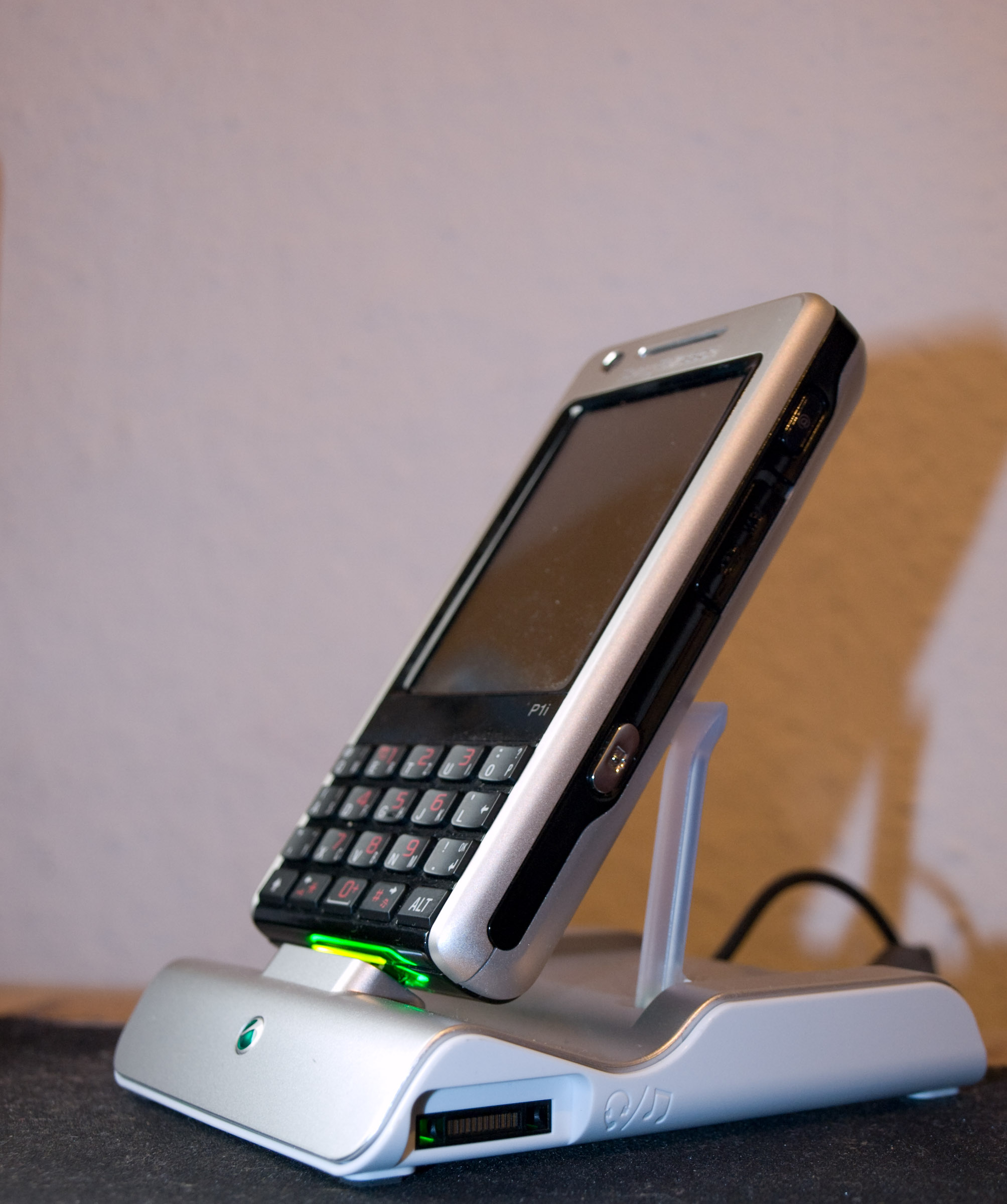 Sony Ericsson P1i with dock